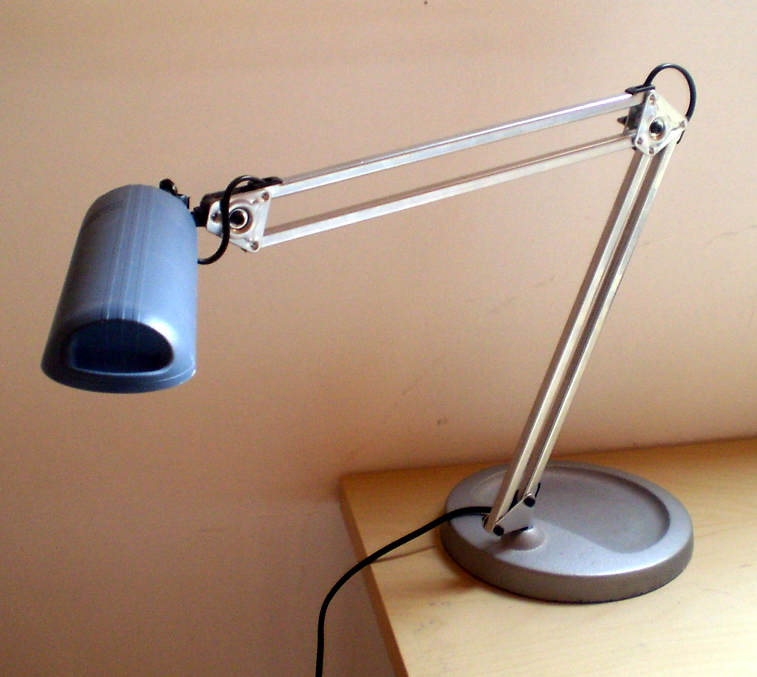 Electric lamp with parallelogram balanced-arm mechanism